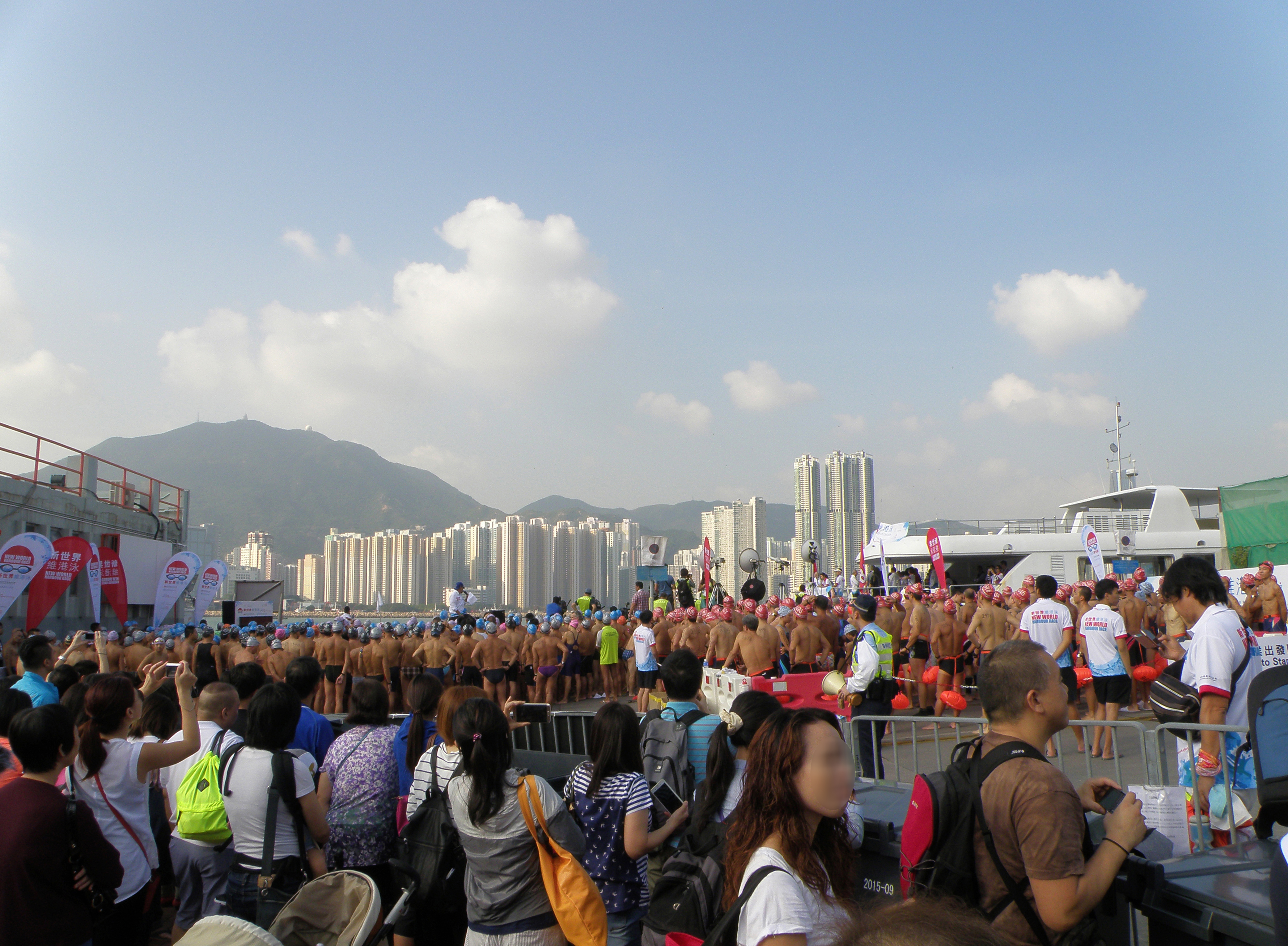 New World Harbour Race in Victoria Harbour, Hong Kong.